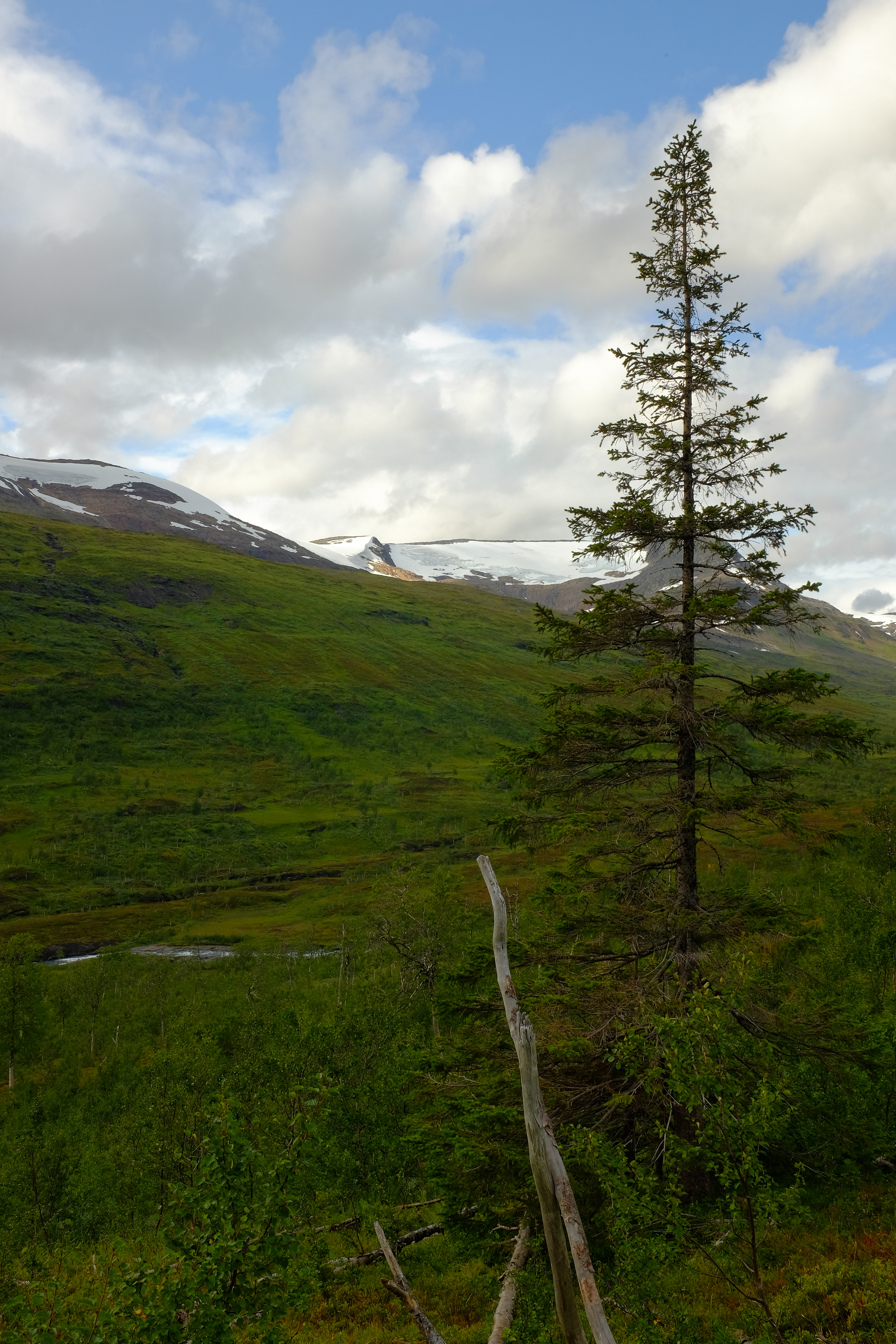 Stormdalen has Norway's northernmost natural spruce, but this is a lonely example far from the nearest forest.